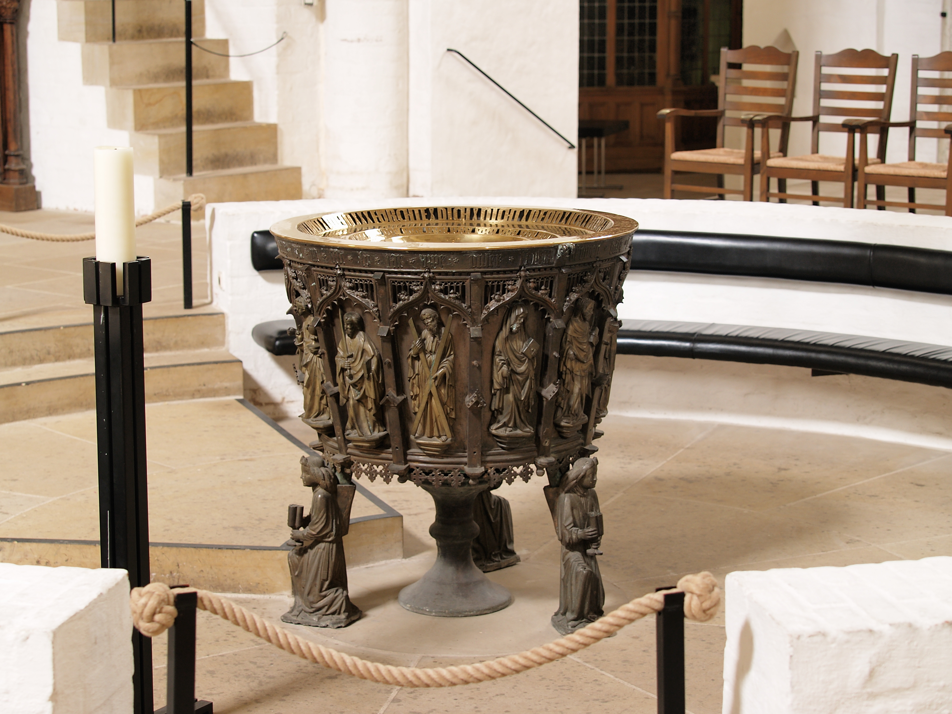 Babtistry of the Luebeck Cathedral